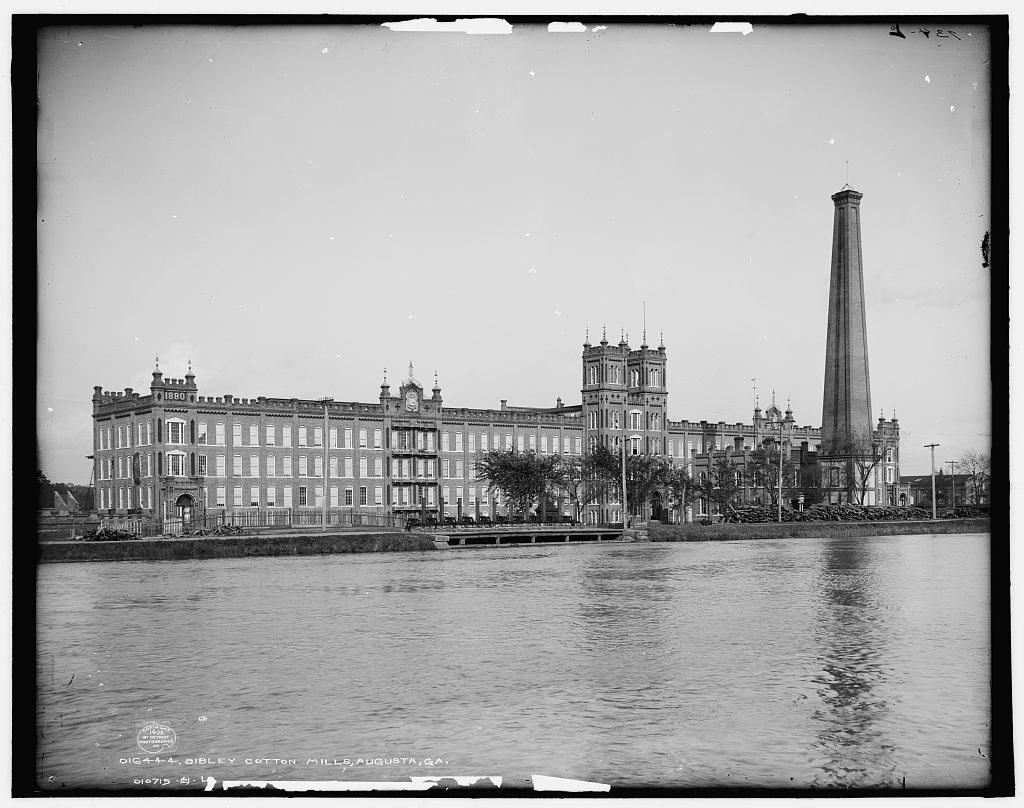 Sibley Mill ca. 1880 and Confederate Powder Works Chimney ca. 1862, located on the Augusta Canal at 1717 Goodrich St, Augusta, Georgia.